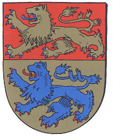 coat of arms of the former German district of Hannover